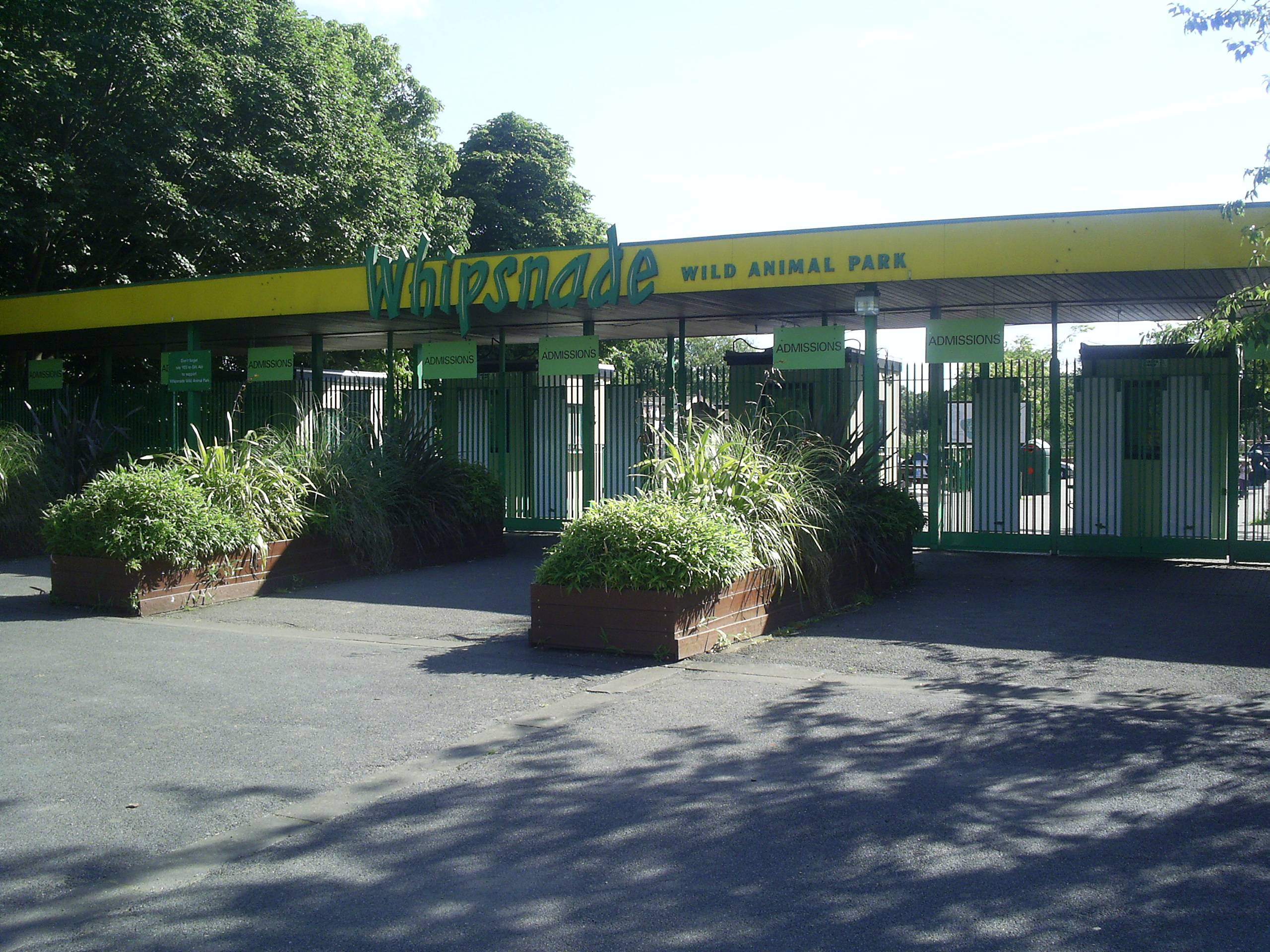 Main entrance to ZSL Whipsnade , Bedfordshire, UK . Taken by me summer 2007. Lumos3 12:07, 15 October 2007 (UTC)